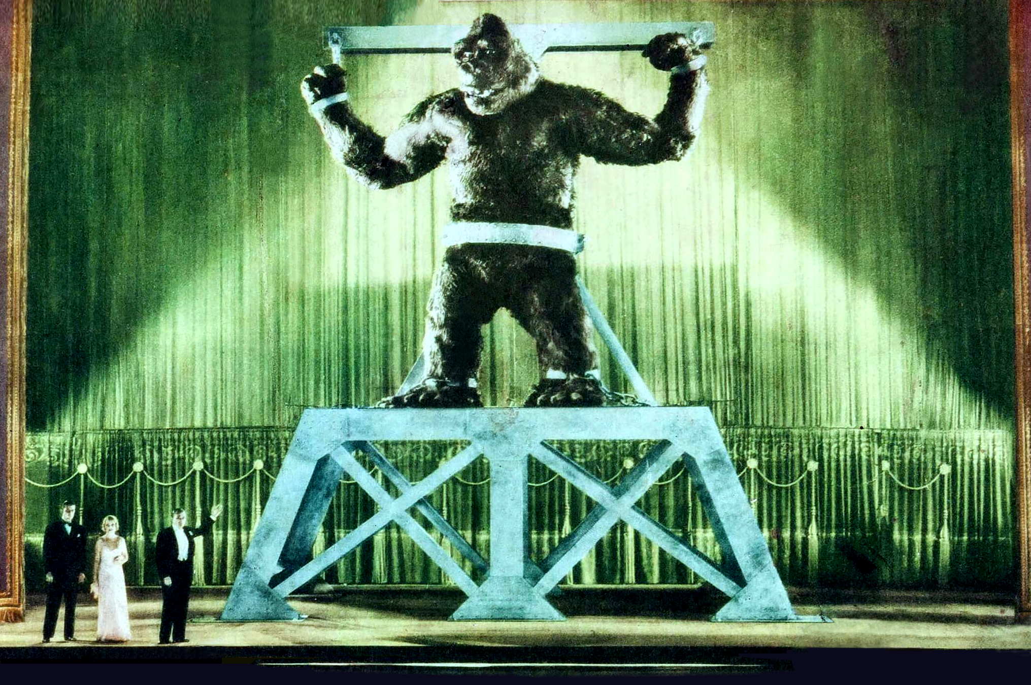 Colored lobby card for the 1942 reissue of the 1933 film King Kong. Image is presumed to be in the public domain as no copyright notice is in evidence.